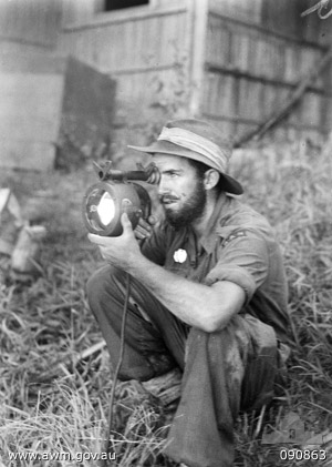 Australian War Memorial (AWM) catalog number 090863 SADAU ISLAND, BORNEO. 1945-04-30. SIGNALMAN K. NEWTON, 2 ROYAL AUSTRALIAN NAVY BEACH COMMANDOS, OPERATING AN ALDIS LAMP ON THE BEACH, DURING THE LANDING ON THE ISLAND.